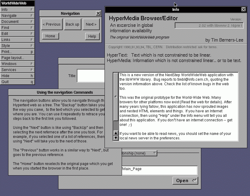 Screenshot of WorldWideWeb browser.